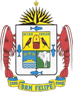 Coats of arms of the municipality of San Felipe, Yucatán.